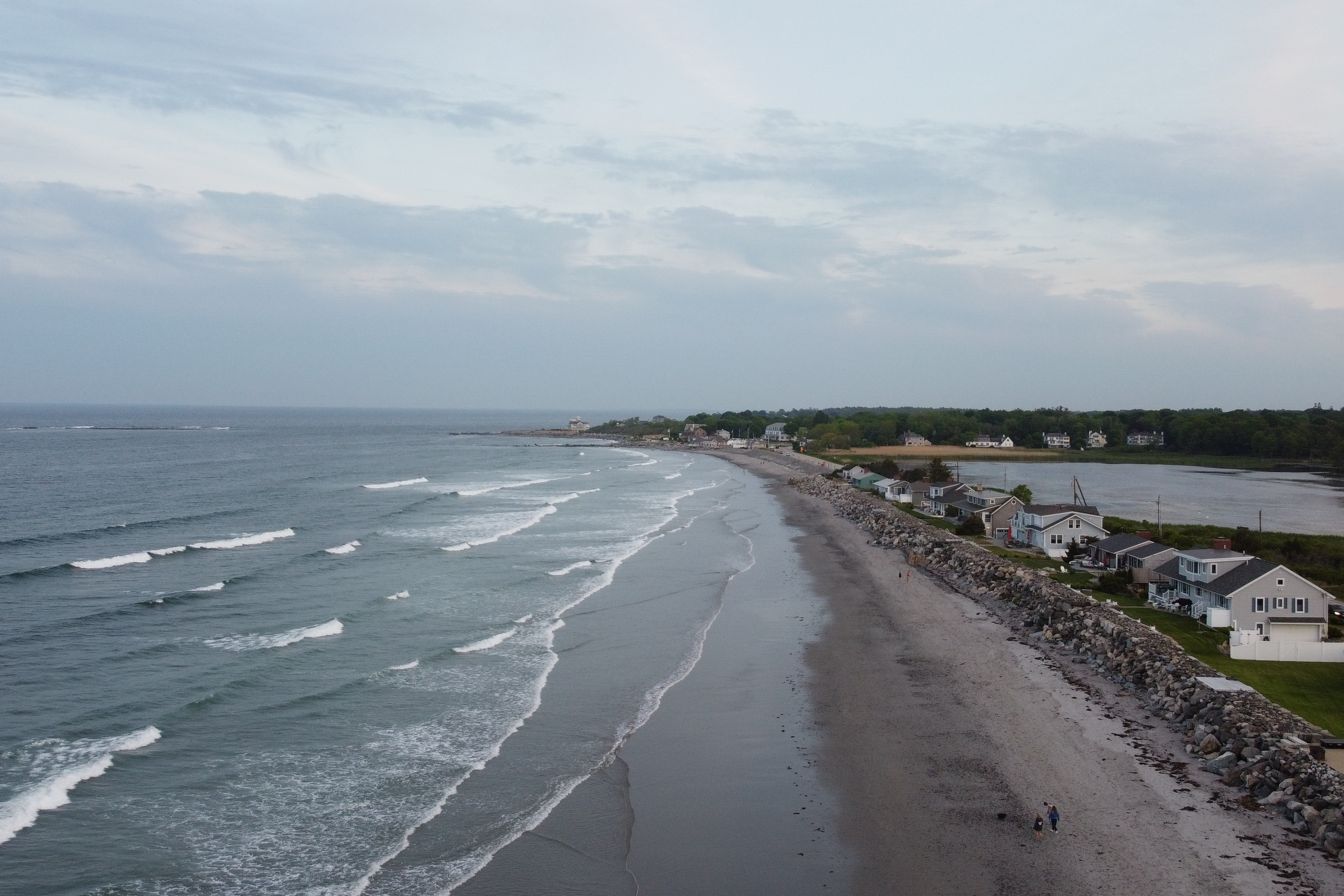 A drone photo of Jenness Beach at sunset in June 2020